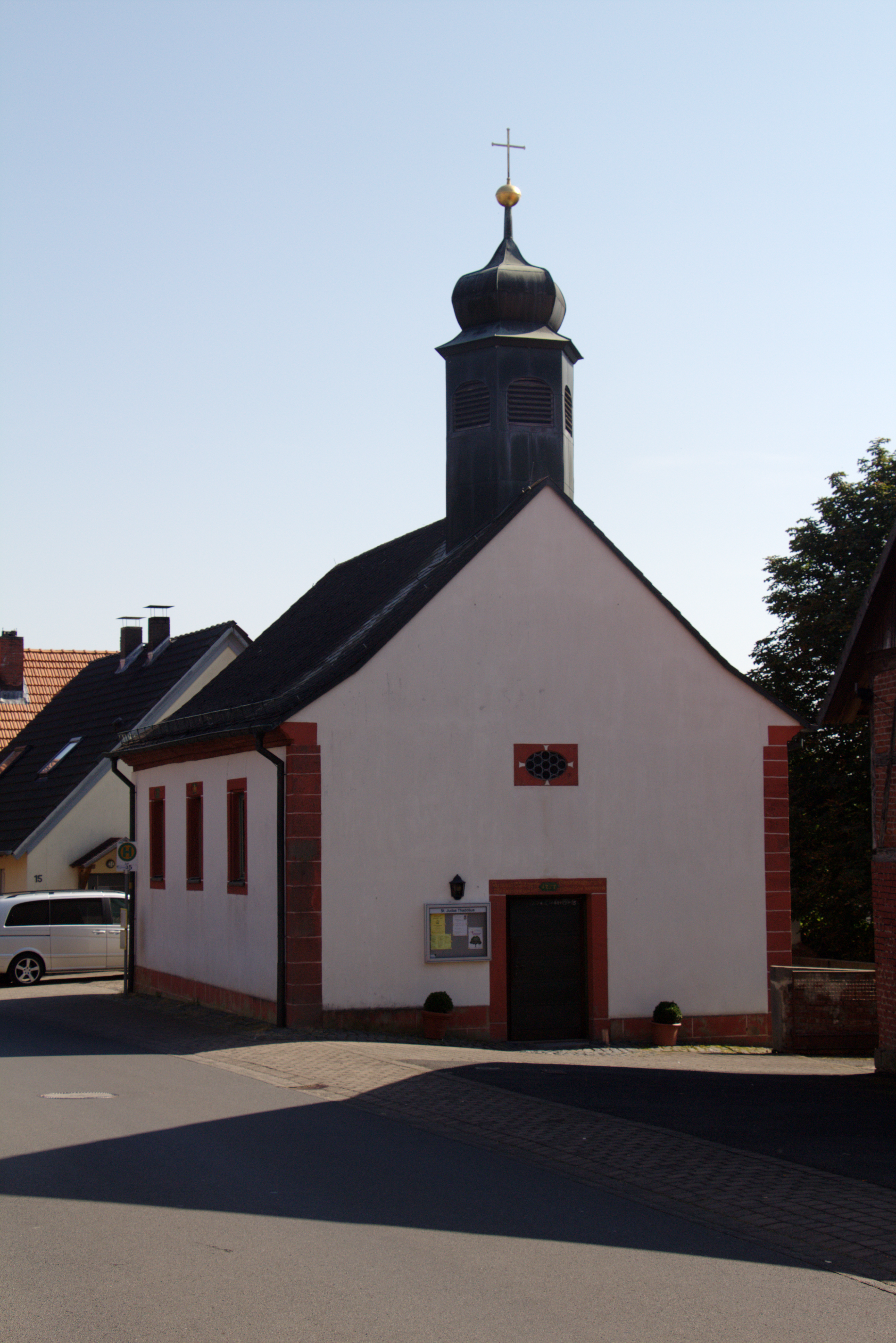 Judas Thaddaeus church in Zell, Fulda, Hesse, Germany